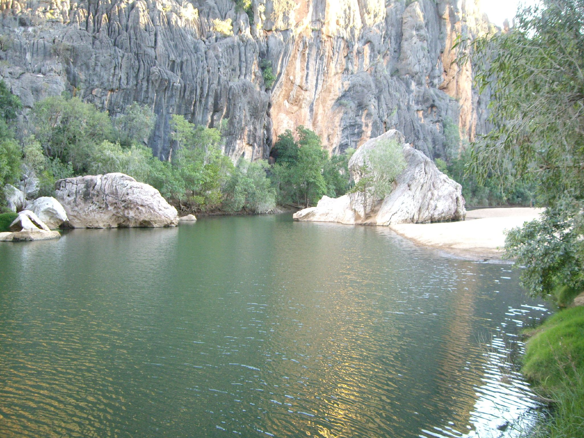 This is a photograph of the Lennard River in the Kimberley region of Western Australia